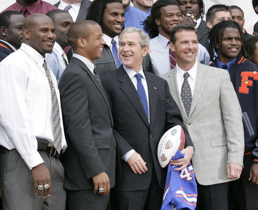 The 2006 Florida Gators football team, led by head coach Urban Meyer and Chris Leak, are honored at the White House by President George W. Bush following the side's winning the 2007 BCS National Championship Game.